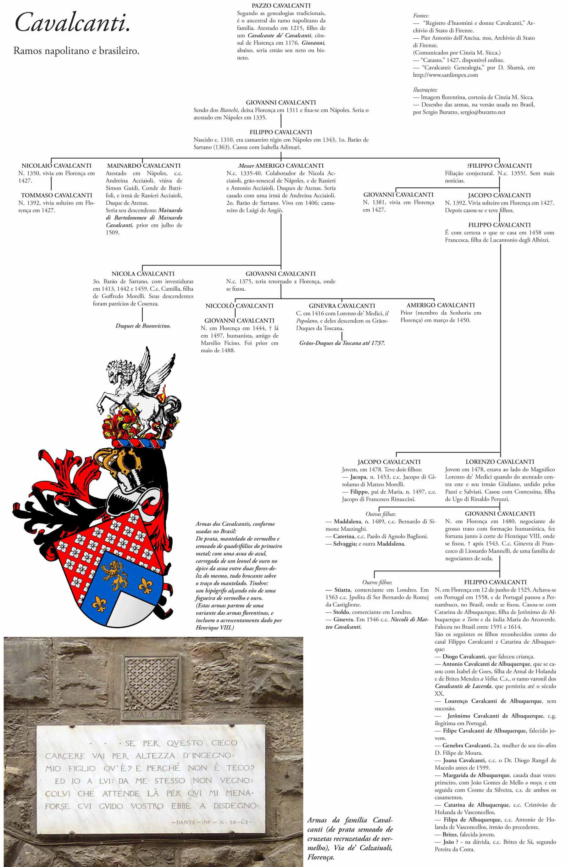 Genealogy of two branches of the Cavalcanti family in Italy and in Brazil, by Francisco Antonio Doria